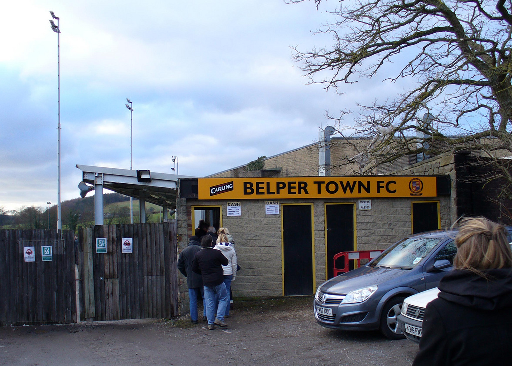 Belper Town Football Club Turnstyle